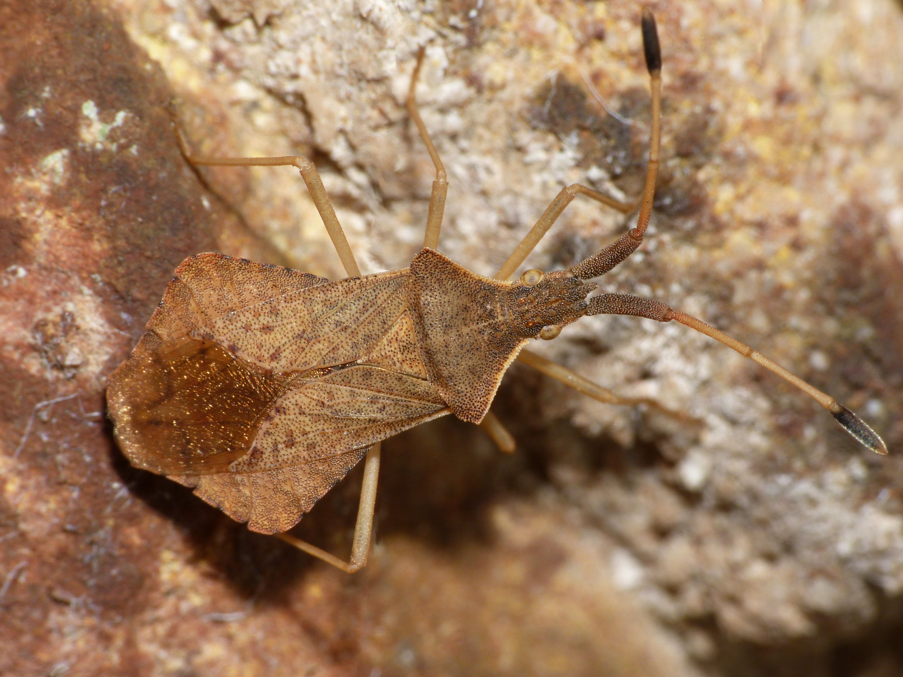 Species: Syromastus rhombeus; Location: Ooijpolder, Nijmegen, Netherlands; Keywords: Squashbug Coreidae